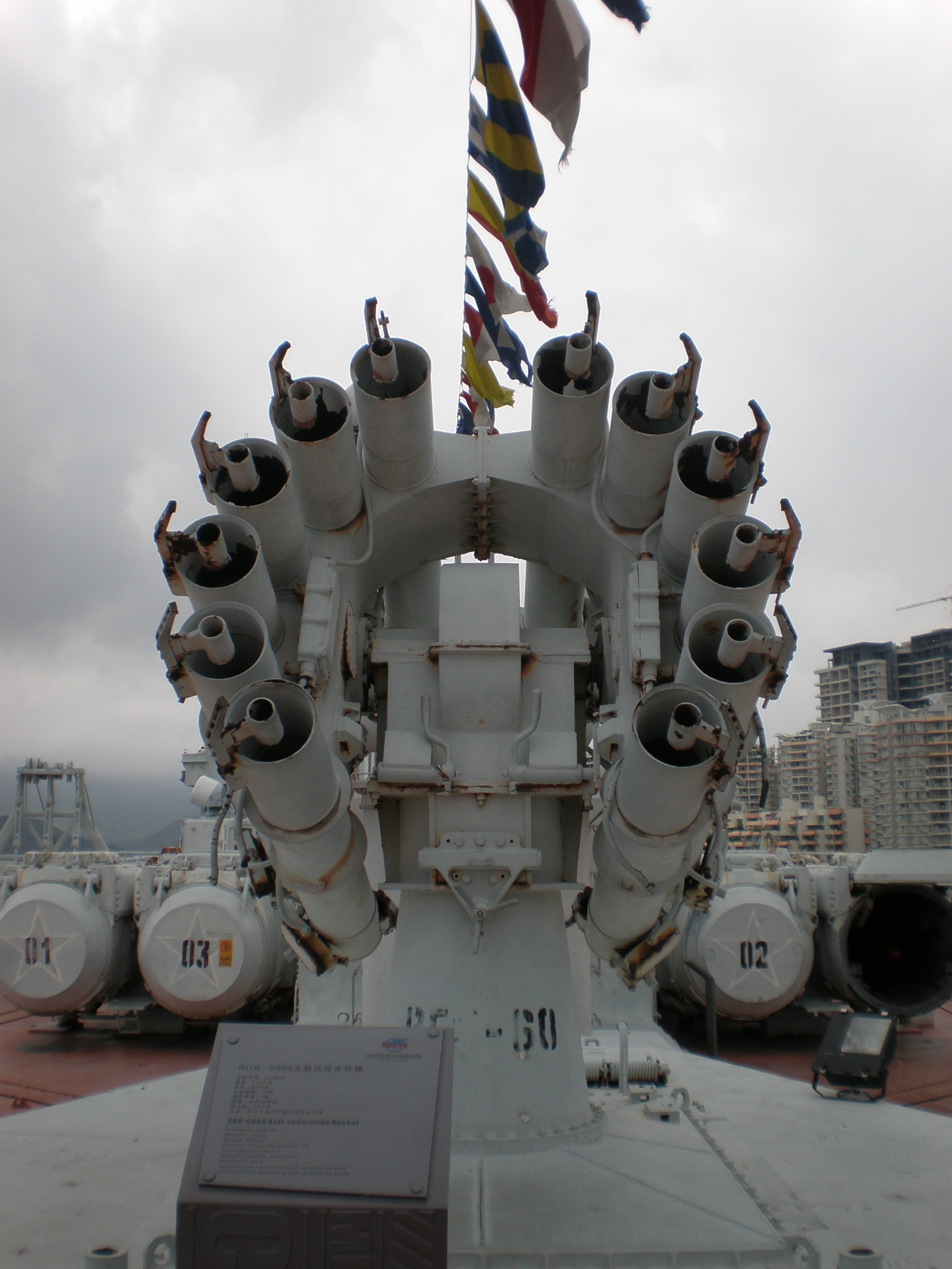 The bow RBU-6000 anti-submarine rocket launcher of the former Soviet aircraft carrier Minsk moored in Shenzhen, China. The Minsk is the centerpiece of the Minsk World military theme park.